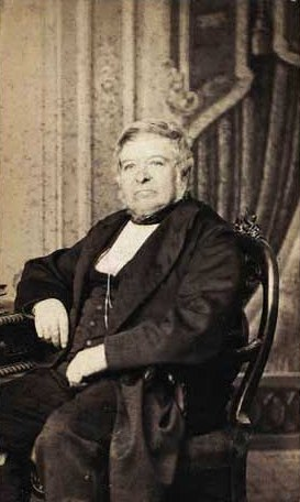 Christian Frederik Bredo Grandjean (1811-1877), Danish pastry chef